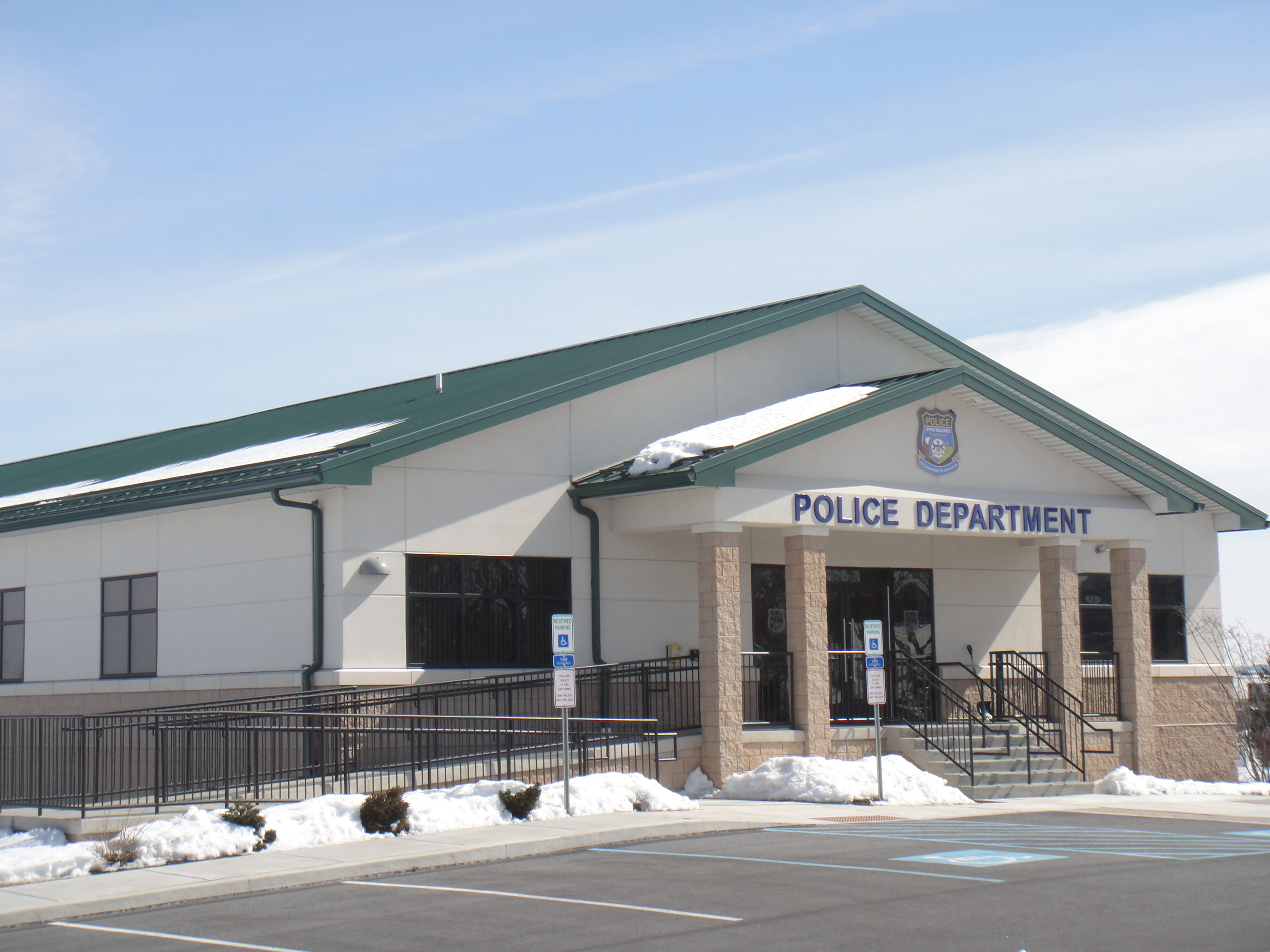 The Upper Macungie Township Police department in Breinigsville, Pennsylvania.